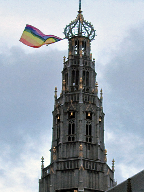 Rainbowflag flying from the Grote Kerk in Haarlem, for the occasion of Roze Zaterdag 2012